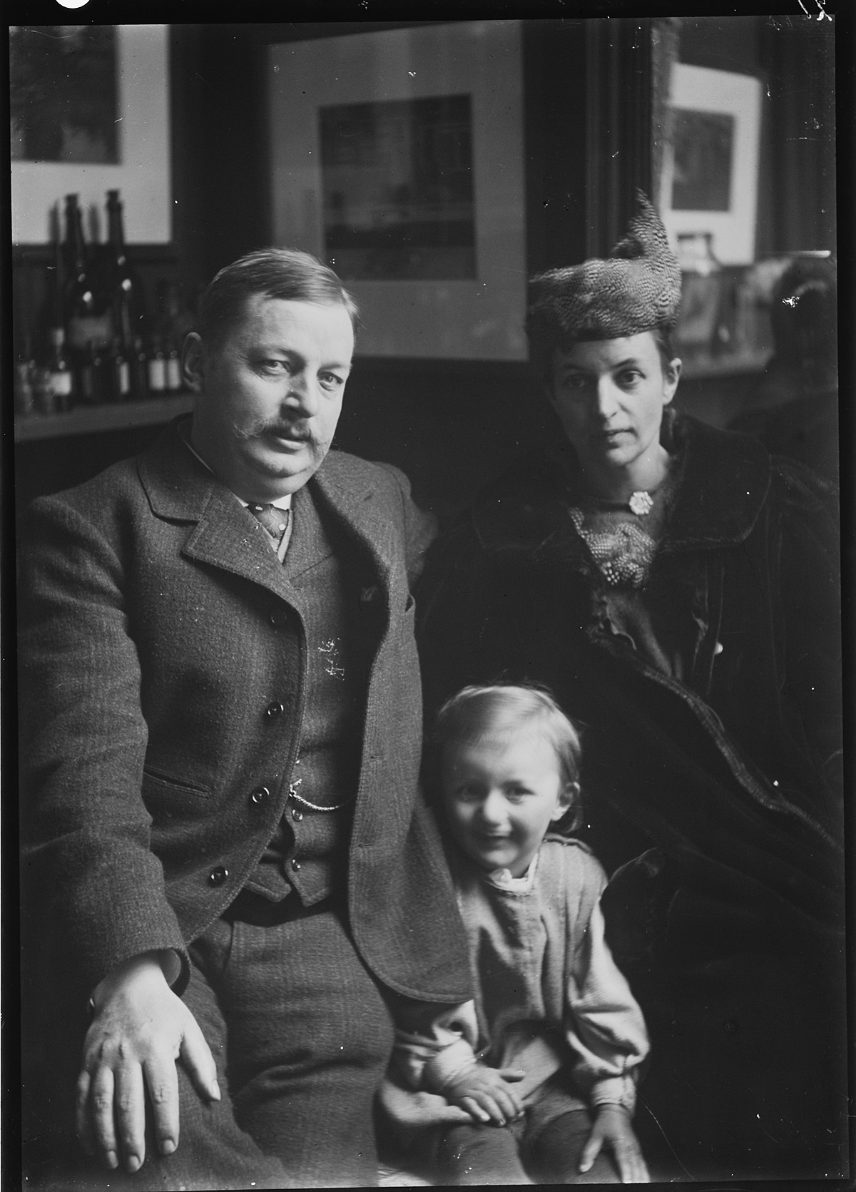 Odo van Vloten (on the left)